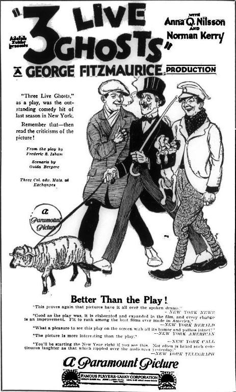 Advertisement for the British comedy film Three Live Ghosts (1922), on page 44 of the January 6, 1922 Variety.